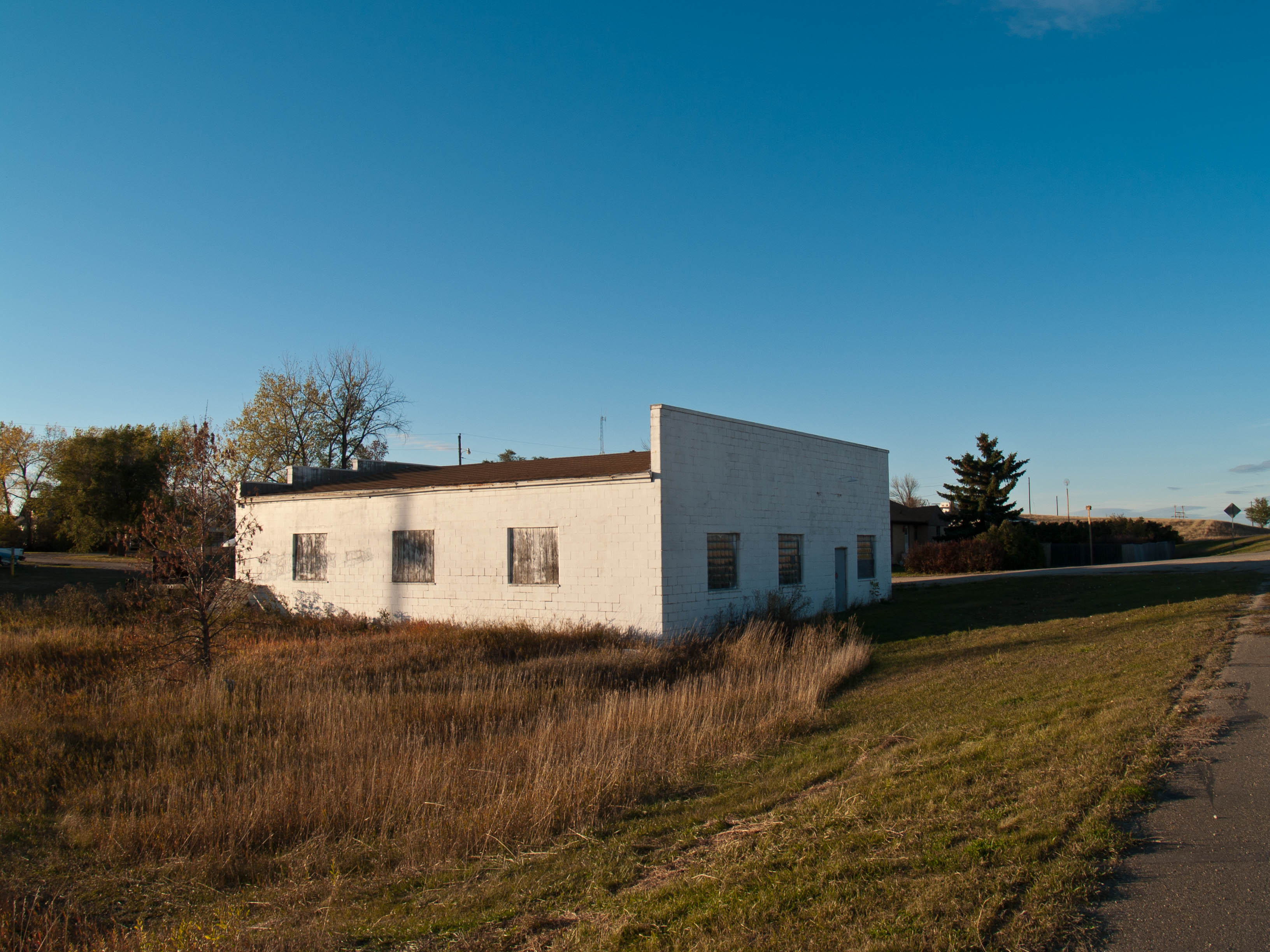 Building in Sanish, North Dakota.